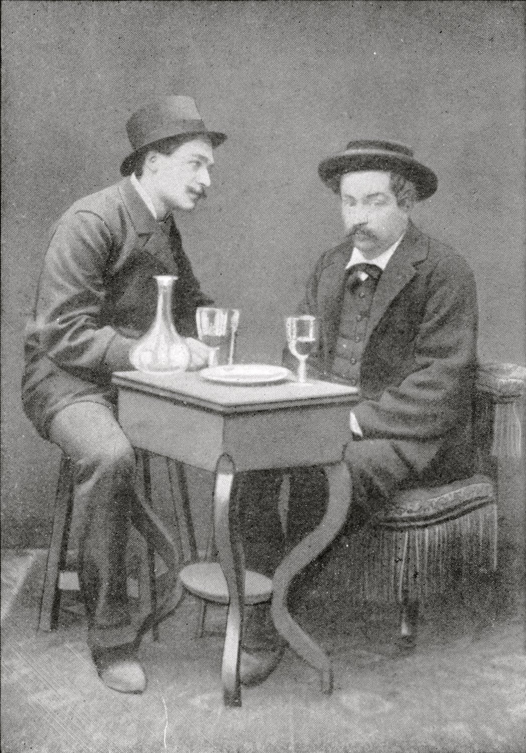 Emile Cohl (left) visits his friend André Gill in Charenton